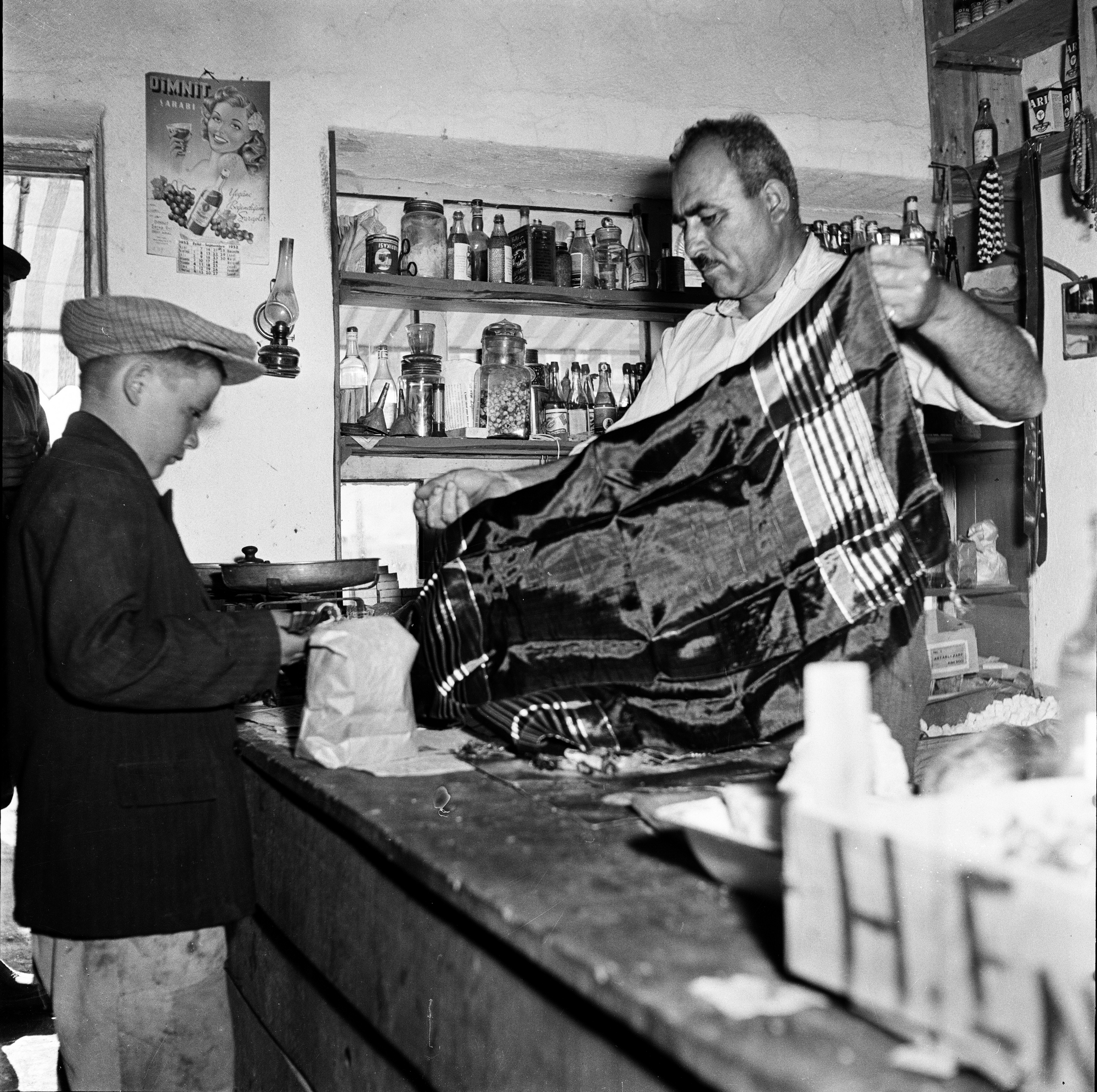 Ballıkpınar is a village 12 kilometres away from the district of Gölbaşı. The village’s history can be traced back to the mid-19th century. Several Tatar families, which had left Crimea, moved to Romania. Then, they sought refuge in the Ottoman Empire and some of them were settled around Ankara. In the later years, other families also settled in the village. Villagers were hard working people who engaged in husbandry. They would assist the nearby villages and share their knowledge with them. It has been a model village of the Republic. Ballıkpınar Köyü Ballıkpınar, Gölbaşı’na 12 kilometre uzaklıkta bir köy. Köyün oluşumu 19. yüzyılın ortalarına dayanıyor. Kırım’dan ayrılan bazı Tatar aileler, Romanya’ya giderler. Oradan da Osmanlı devletine sığınırlar. Devlet, ailelerden bazılarını Ankara civarına yerleştirir. Sonraki yıllarda köye başka aileler de gelir. Köyün sakinleri, tarımla, hayvancılıkla uğraşan, çalışkan insanlardır. Civar köylere yardımcı olurlar, bilgiyi paylaşırlar. Cumhuriyet’in örnek köyüdür.